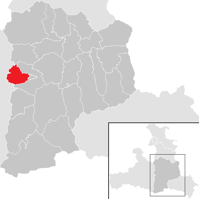 District Sankt Johann im Pongau